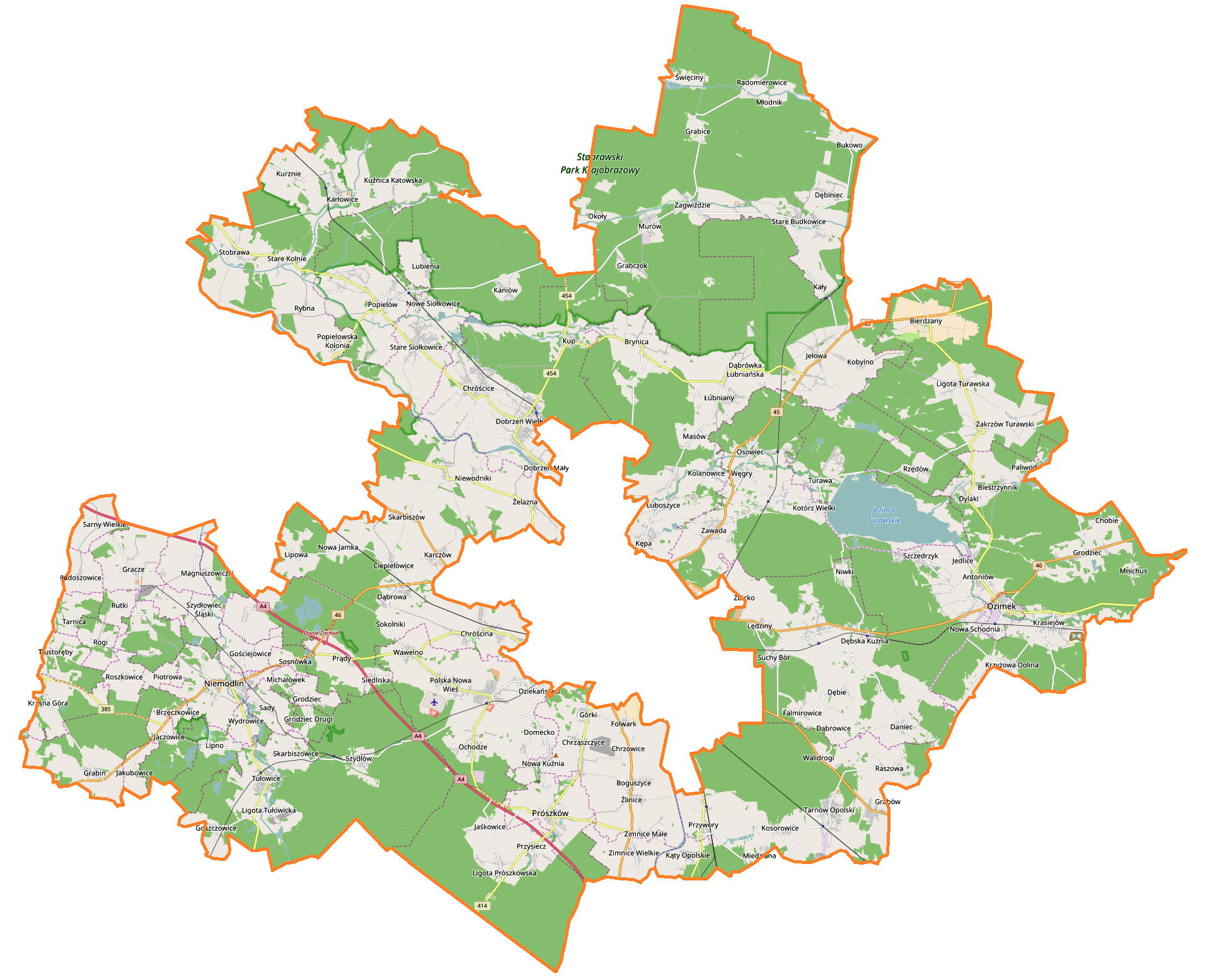 Location map